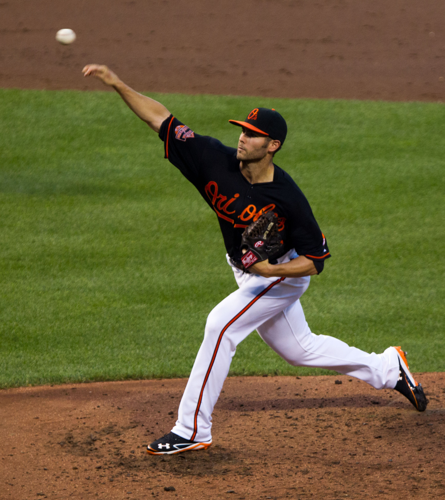 Baltimore Orioles pitcher Jake Arrieta in a game against the Cleveland Indians at Oriole Park at Camden Yards in Baltimore, Maryland on June 29, 2012.